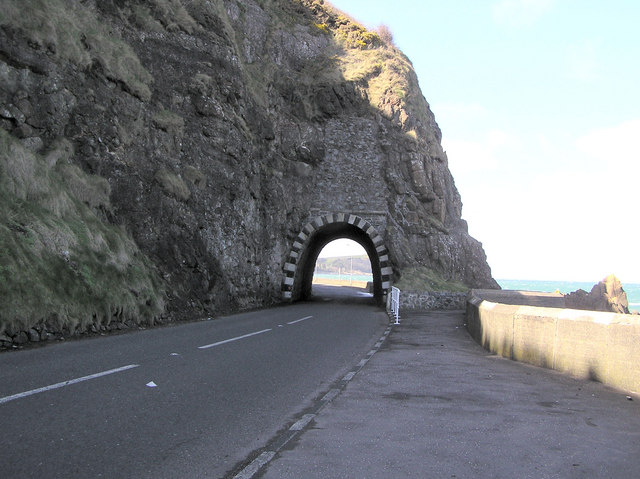 Blackcave Tunnel, Larne. Heading along the coast road from Larne